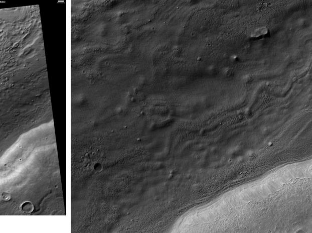 Centauri Montes, as seen by hirise. Scale bar is 500 meters long. Location is 39.5 south and 96.6 east. Image was taken by the Mars Reconnaissance Orbiter's HiRISE. The HiRISE camera was built by Ball Aerospace and Technology Corporation and is operated by the University of Arizona. Image courtesy NASA/JPL/University of Arizona.